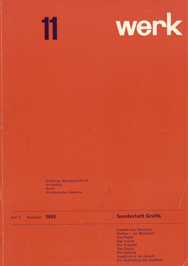 Cover of the Swiss magazine Werk, issue 11/1955 (November 1955). Special issue dedicated to graphic design. The content of this issue was edited and designed by Karl Gerstner.